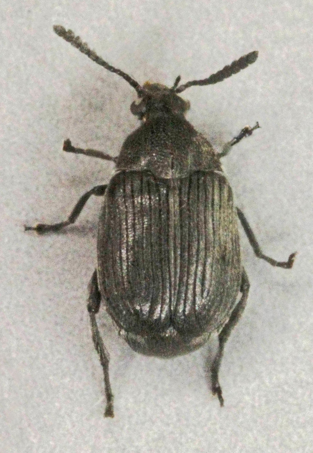 Bruchidius villosus, Newborough Warren, North Wales, Sept 2011